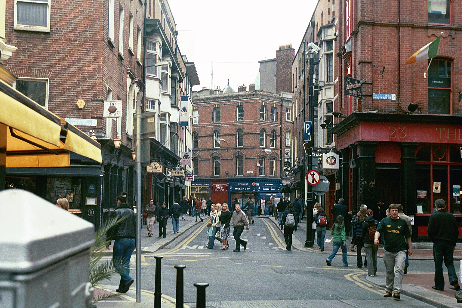 Dublin (city centre)